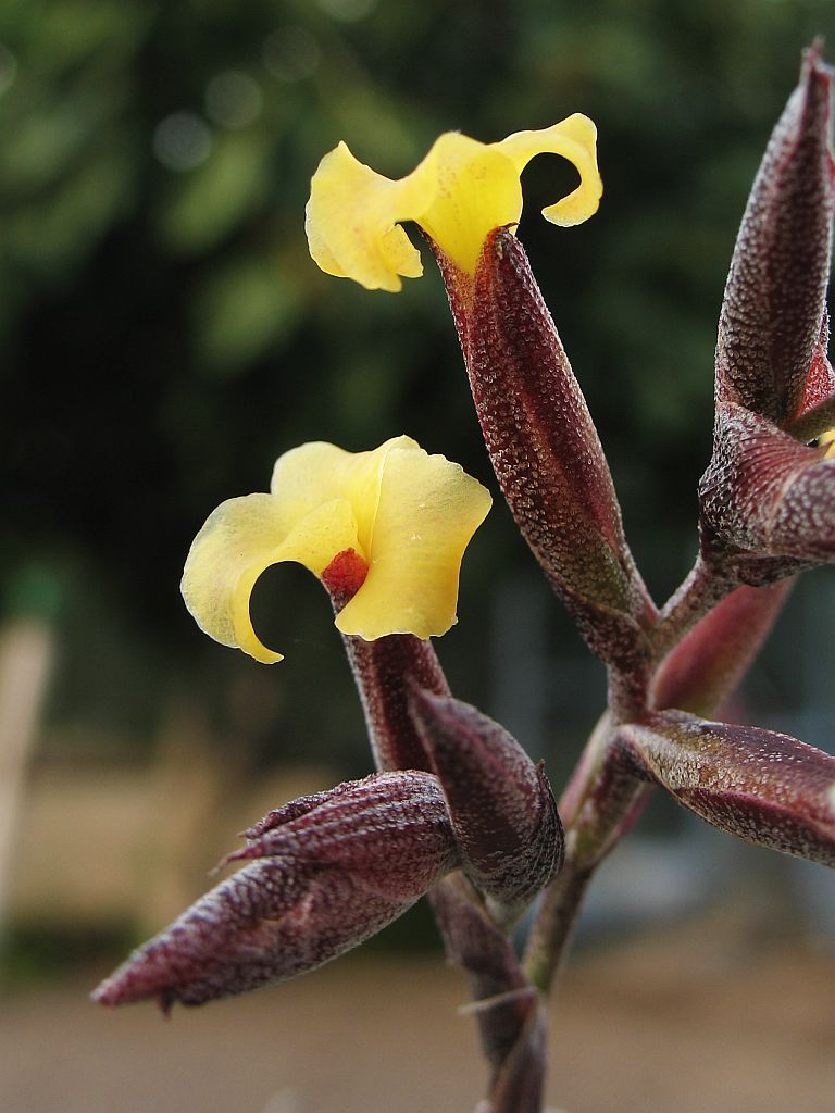 Tillandsia humilis in cultivation at the Botanical Garden of Heidelberg, Germany.